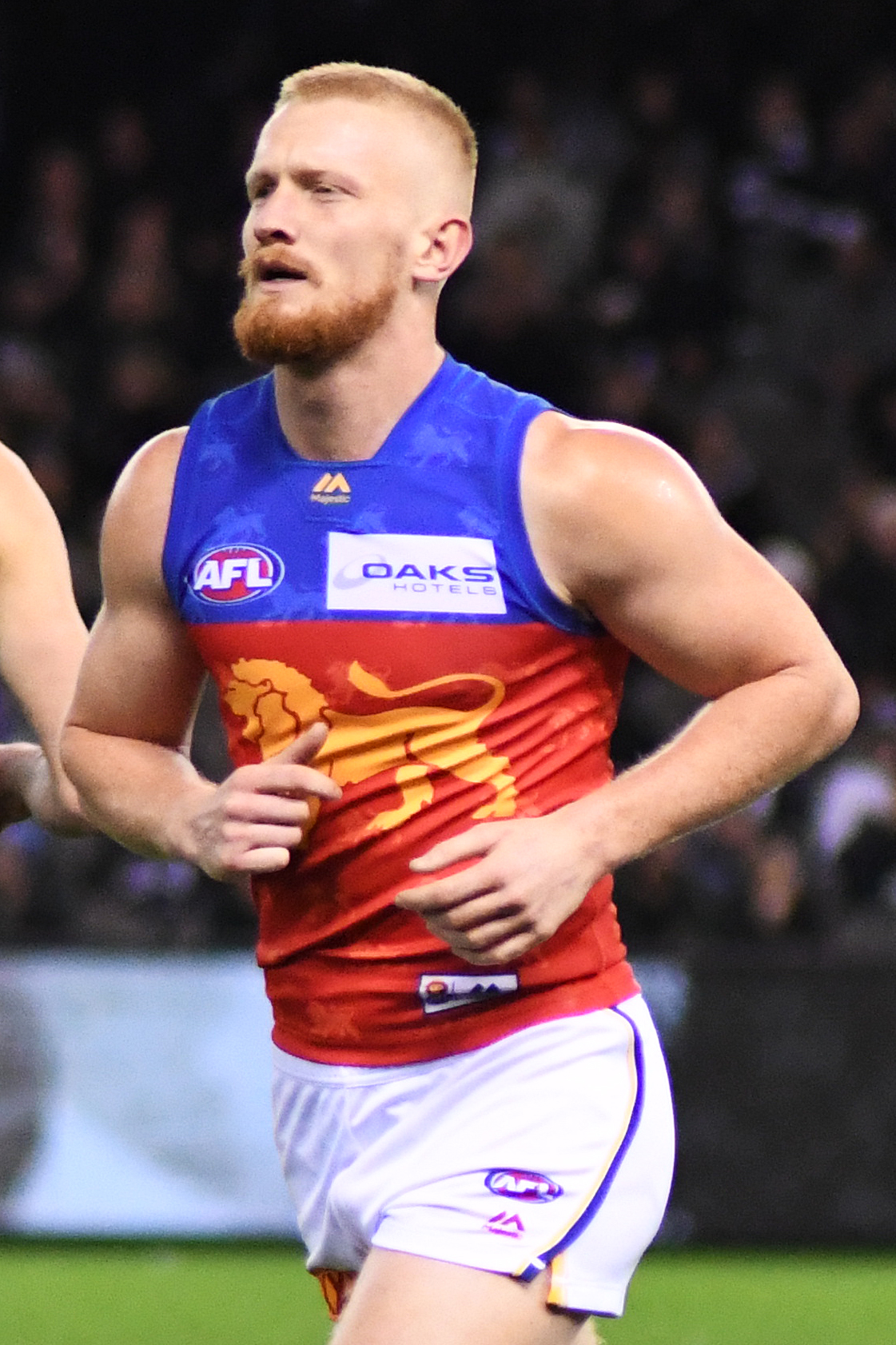 Nick Robertson of Brisbane during the 2018 AFL round 21 match between Collingwood and Brisbane at Etihad Stadium on Saturday, 11 August 2018 in Melbourne, Victoria.